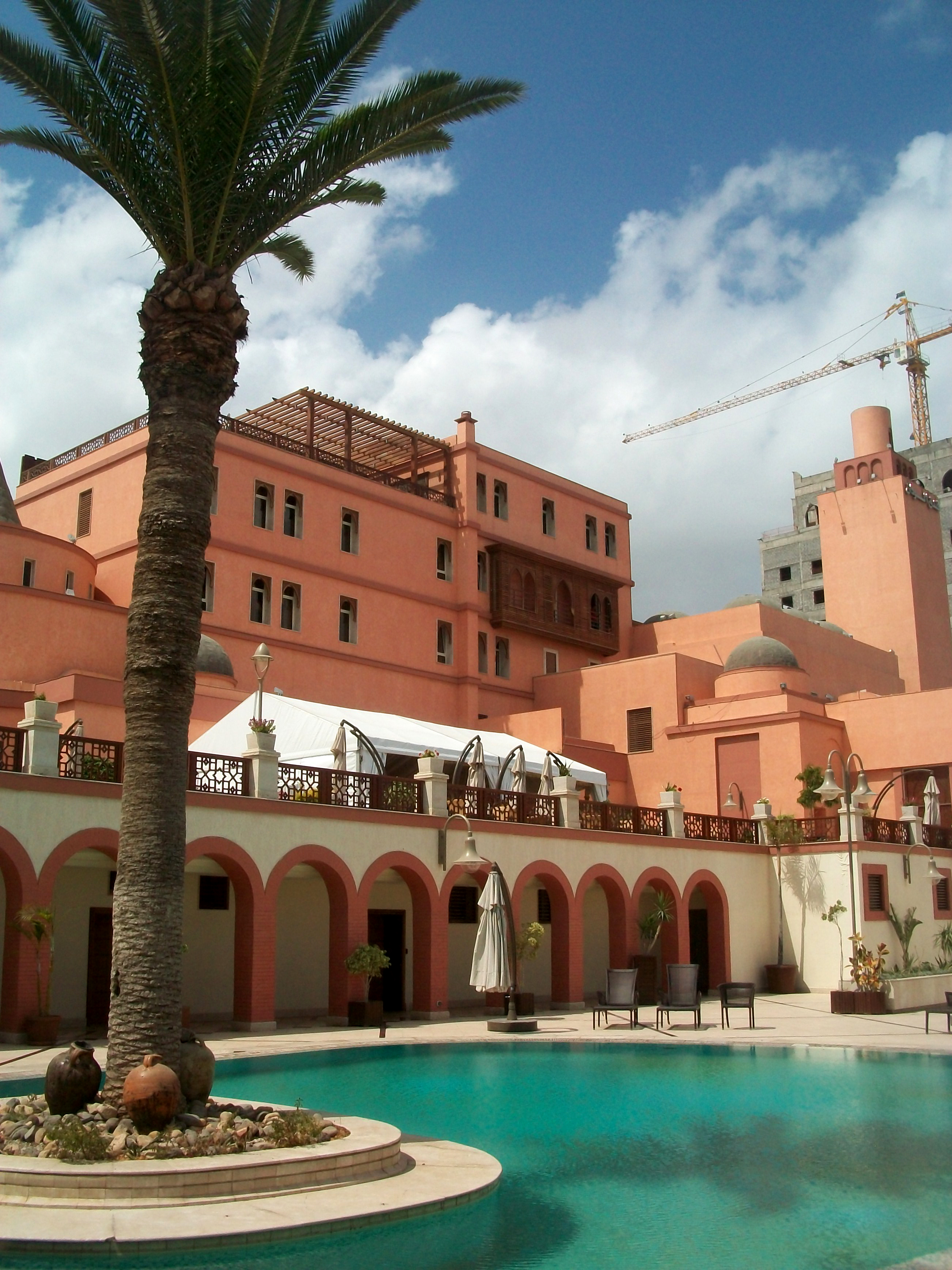 Internal courtyard swimming pool of the historic luxury Waddan Hotel in Tripoli Libya. The hotel was designed by the famous Italian rationalist colonial architect Florestano Di Fausto.